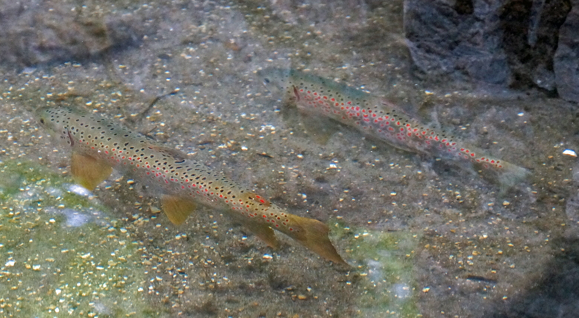 Ohrid trout (Salmo letnica) in a fishfarm in Drilon close to Pogradec, Albania